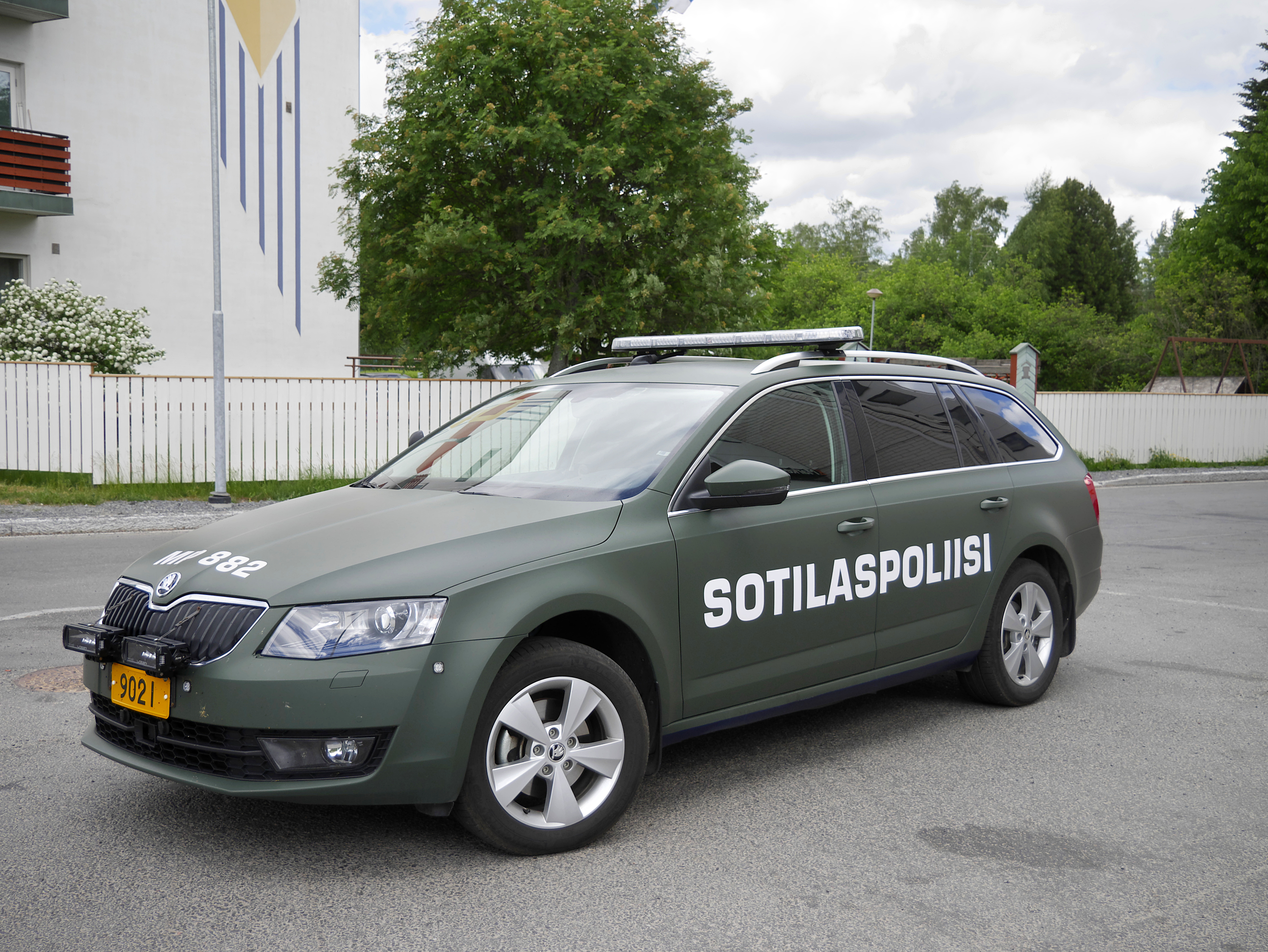 Finnish military police car.